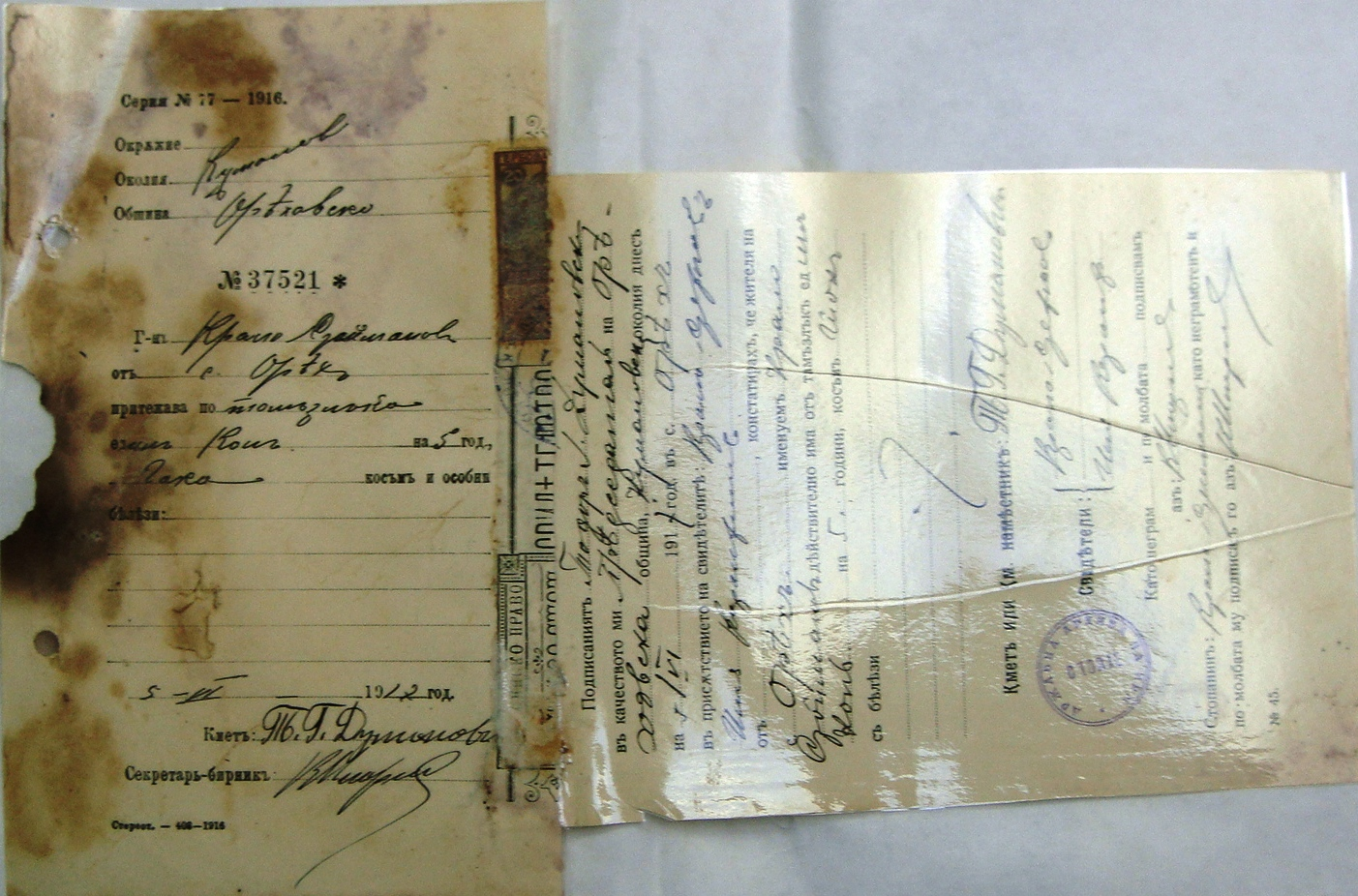 Certificate of ownership of the horse, 1917, p. Orah, Kumanovo. This media file is produced by Wikipedian in Residence in Category:Wikipedian in Residence at DARM in 2016.